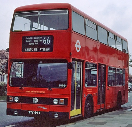 London Transport bus T64 (reg. WYV 64T), a 1979 Leyland Titan (B15), pictured in Eastern Avenue (the A12 road) near the tube station in Gants Hill, Redbridge, London, at the end of a journey operating London Buses route 66. As the 88th production Titan, it's from the early batch built by the British Leyland subsidiary Park Royal Vehicles in Park Royal, London (later ones were built at Leyland's expanded factory in the Lillyhall Industrial Estate, Workington). As with the vast majority of production, it was delivered new to London Transport as part of the dual-door T-class, allocated fleet number T64. Having been delivered to Aldenham Works in September 1979, it didn't enter service until February 1980 out of North Street garage, Romford (code NS), and is pictured here just two months later looking good as new. It saw service in London until 1994 when, instead of being privatised into a private London operator, it passed to dealer Ensignbus, who sold it immediately to Thanet based small independent operator Eastonways. They renumbered it 22 and painted it in their coach/private hire livery of white whith blue stripes, and in July 1995 re-registering it with the cherished plate LIL 2515. In August 1998 it returned to Ensign who sold it this time to Hams Travel of Flimwell, East Sussex, who painted it in their red & silver livery, and later returned it to its original registration. At some point it also had its route destination box panelled over. By May 2010 it was back to Ensign for a third time, sold immediately again, this time to coach operator On-a-Mission of Soulbury, Bedfordshire, who operated it still in Hams colours. By February 2011 it was again back at Ensign, still in the red & silver livery. At some point during or after its time with Hams Travel, it has had its centre door removed.